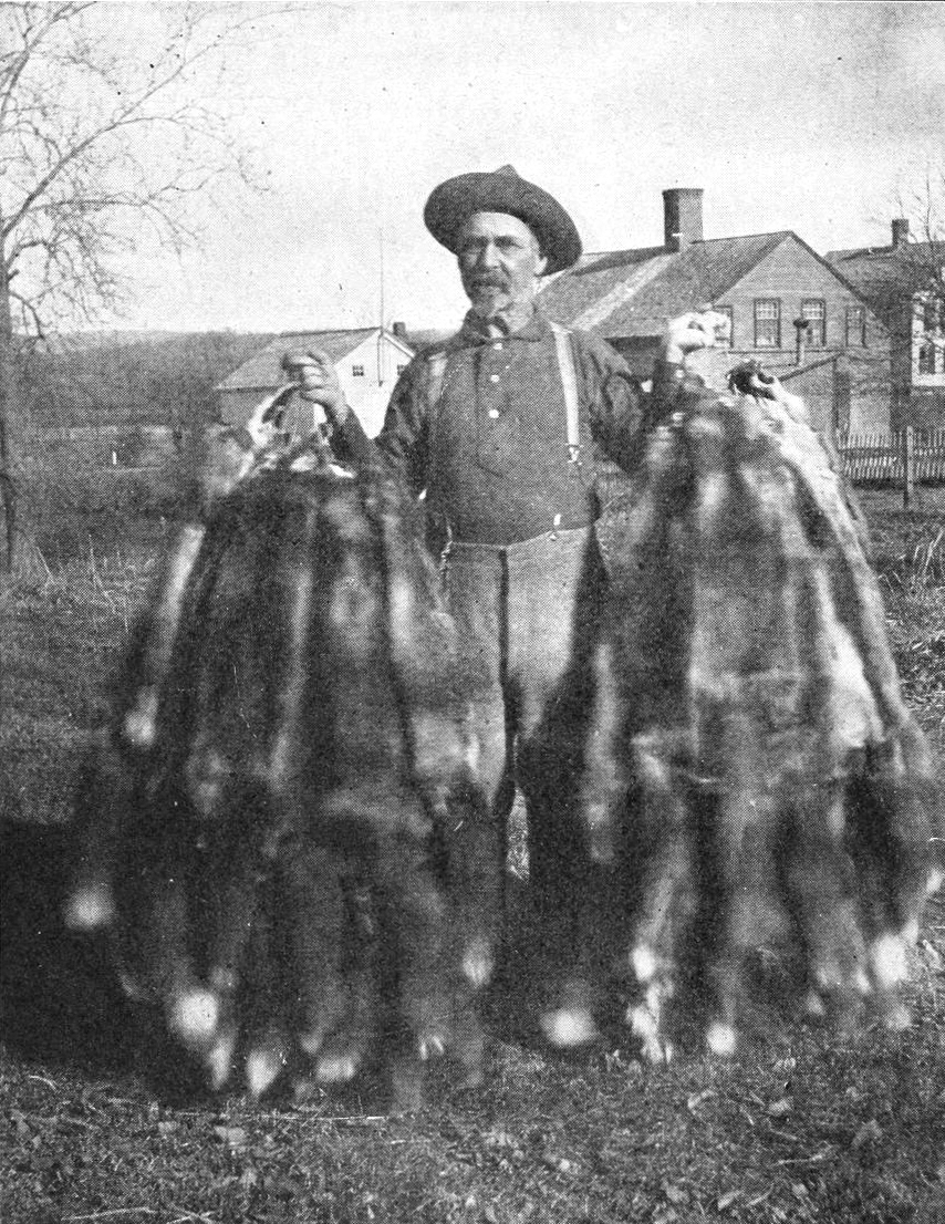 Adirondack Trapper holding fox pelts.